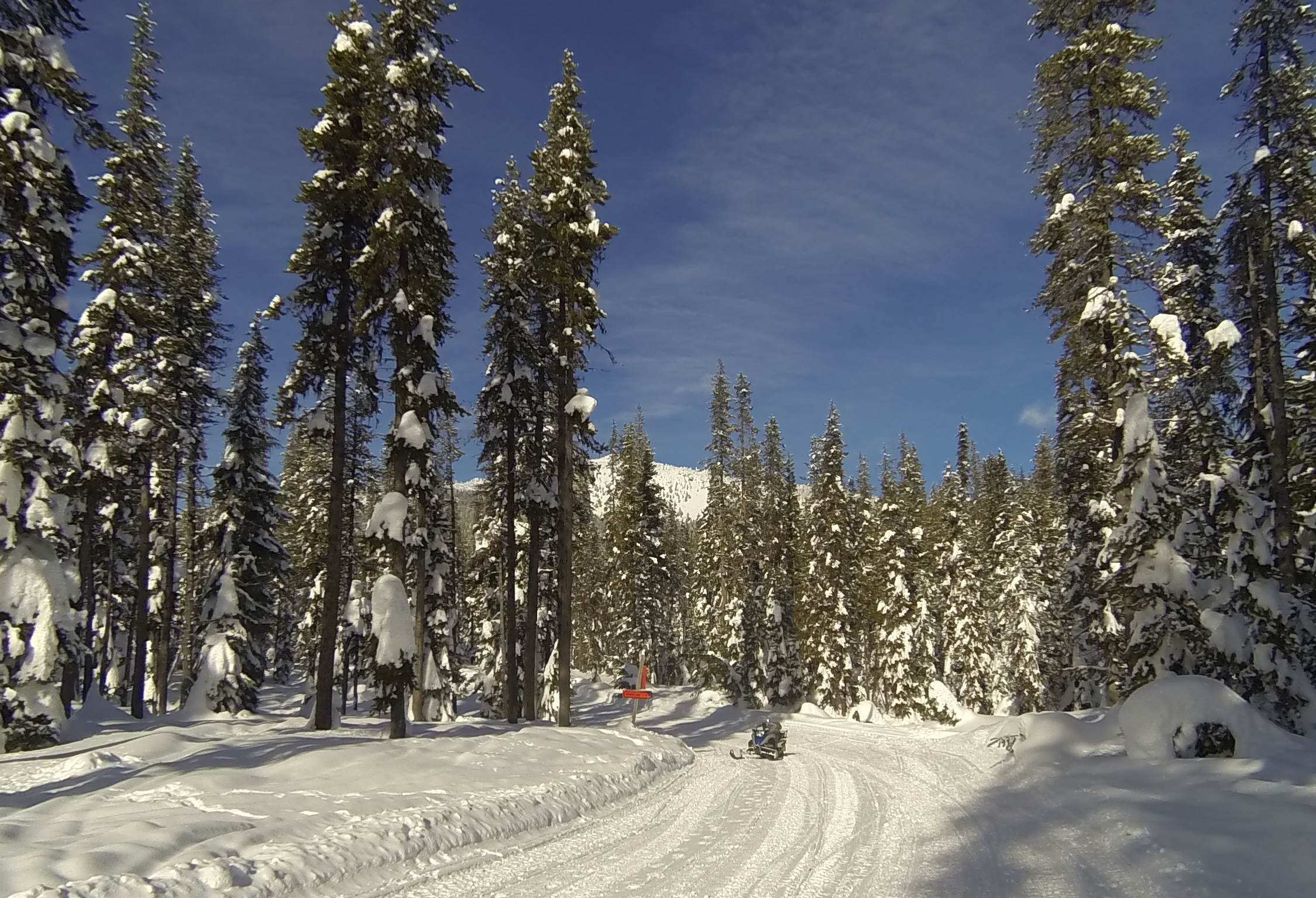 This is one of the snowmobile trails between Mount Bailey, Diamond Lake, and Crater Lake with Mount Bailey showing through the trees in the background.